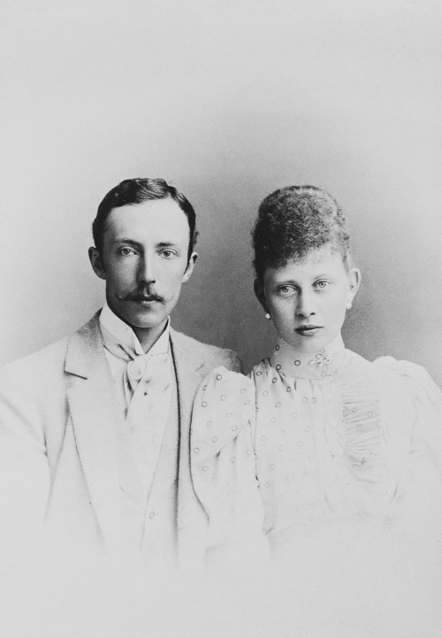 Princess Margaret of Prussiaand Prince Frederick Charles of Hesse